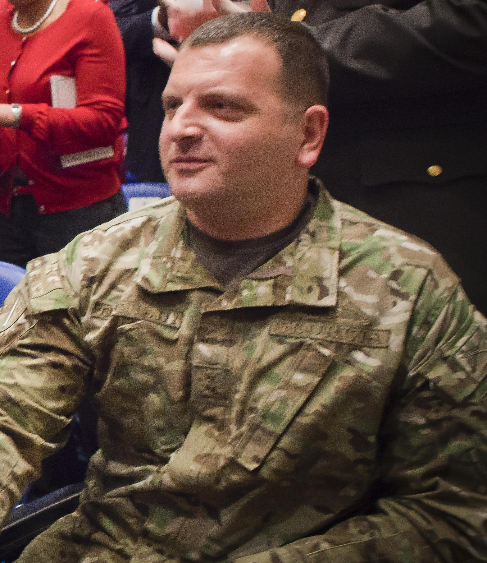 WASHINGTON, D.C. - Gen. John M. Paxton, Jr., assistant commandant of the Marine Corps, left, thanks LTC Alex Tugushi, a battalion commander with the Georgia forces stationed with the Marines in Helmand Province, Afghanistan and wounded warrior, right, for his attendance and sacrifice during a promotion and appointment ceremony at Marine Barracks Washington, D.C., Dec. 15, 2012.